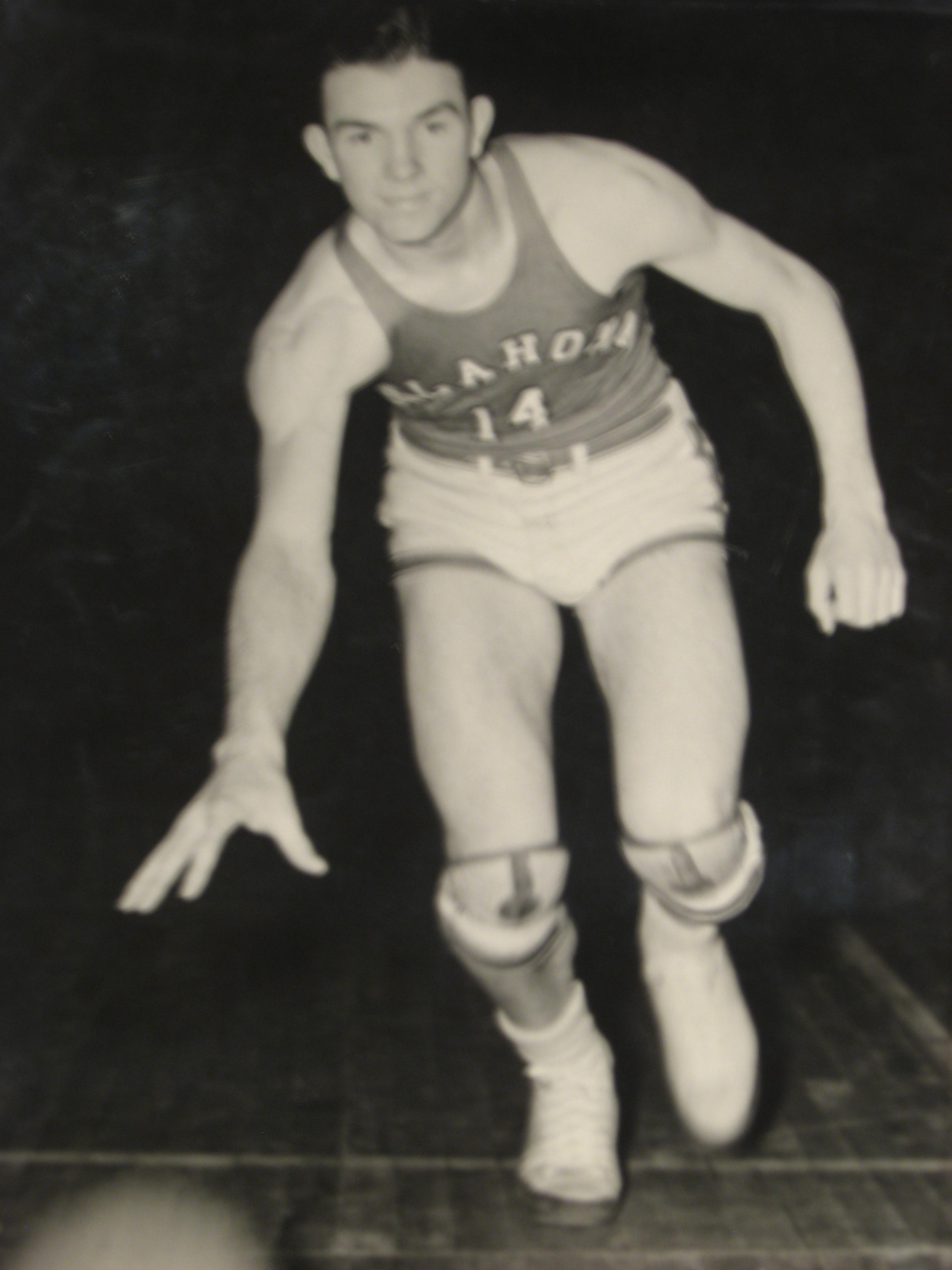 Photograph of Jimmy McNatt during his senior season (1939-40) at Oklahoma